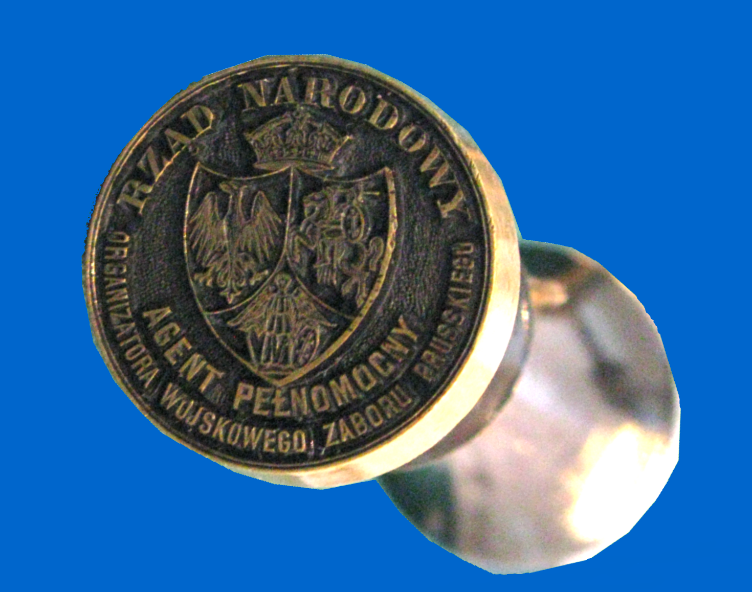 Seal of the plenipotentiary of military organizer of Prussian Poland during January Uprising (image reversed)